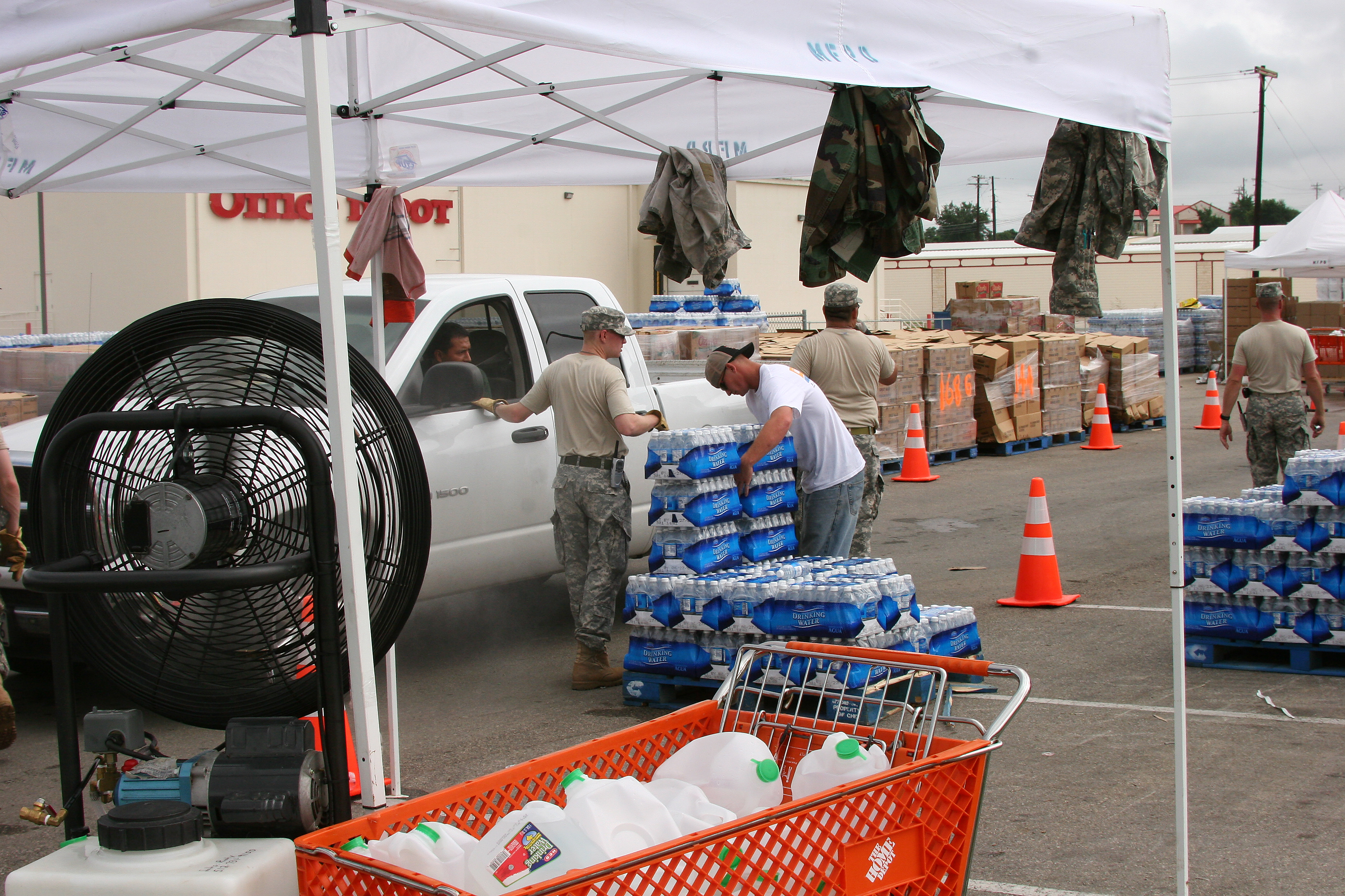 Marble Falls, TX, July 2, 2007 -- Texas State Guard troops pass out free water after the local water supply was contaminated from last week's flooding. Bob McMillan/ FEMA Photo